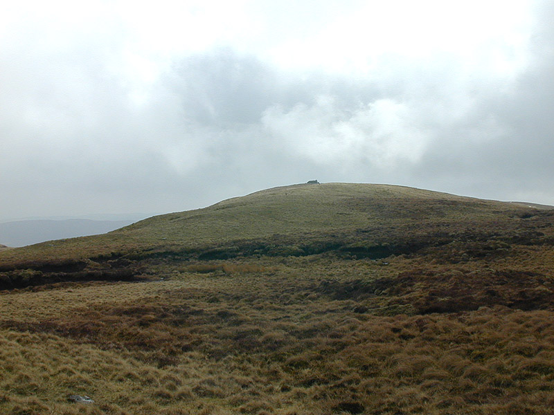 Moorland north east of Llan Ddu Fawr The rough moorland between Carnyrhyrddod and Llan Ddu Fawr, whose summit and cairn lies ahead.